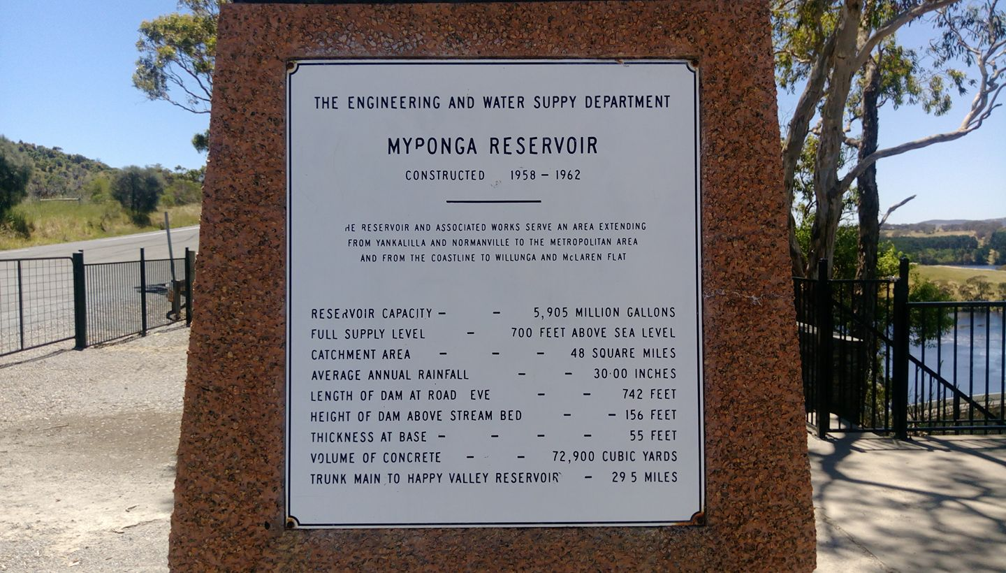 Posted sign about the Myponga Reservoir